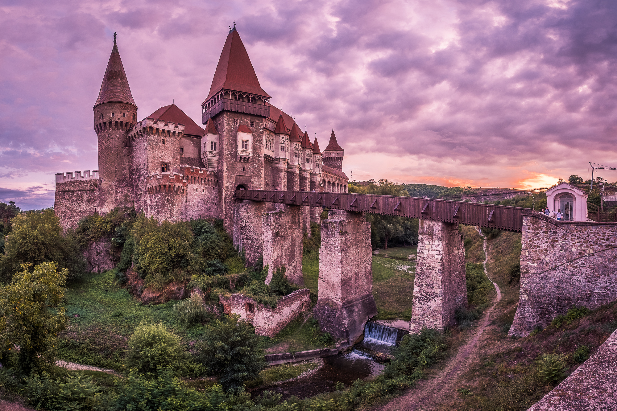 Check out my gallery at if you want to see more pictures. You can follow me on